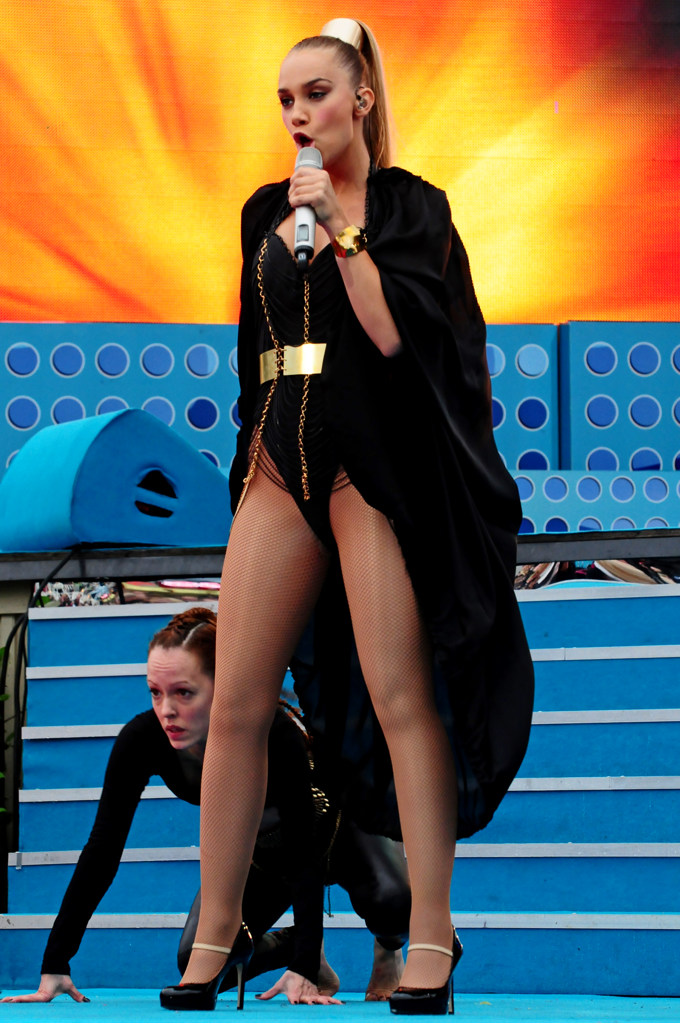 Agnes Carlsson at Sommarkrysset